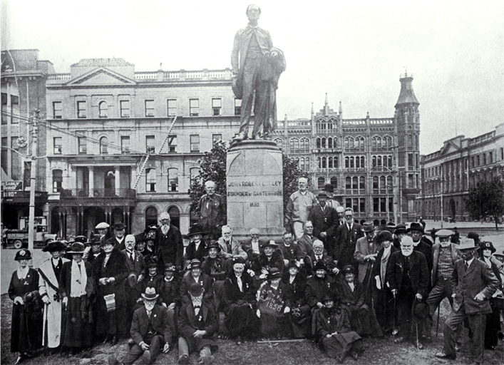 Survivors of the first six ships grouped around the Godley statue, Cathedral Square, Christchurch, 75 years after their arrival. For more background, see some contemporary reporting in the Akaroa Mail and Banks Peninsula Advertiser of 15 December 1925; the celebrations were held on 12 December 1925.